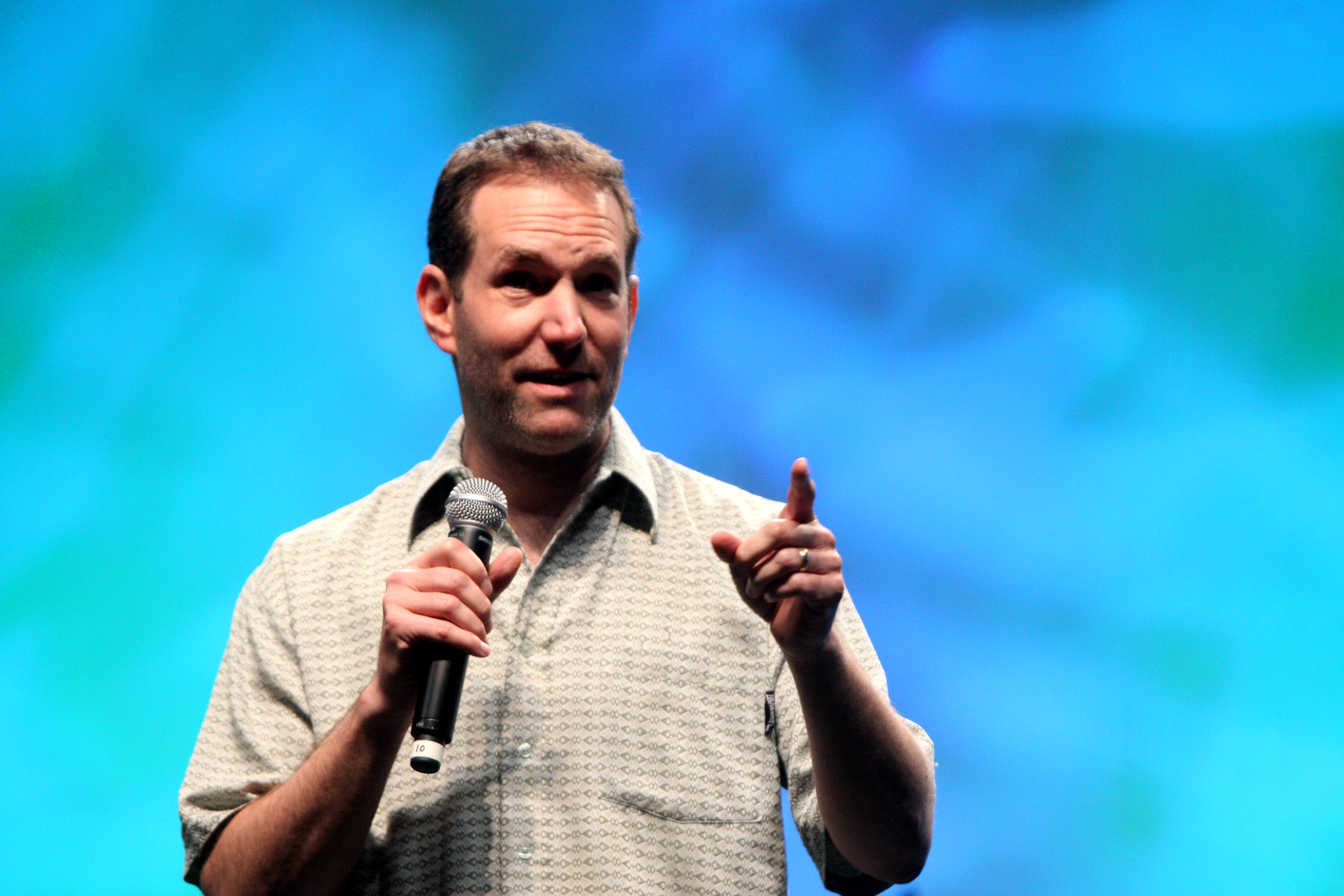 Comedian YouTuber, Greg Benson, at VidCon 2012